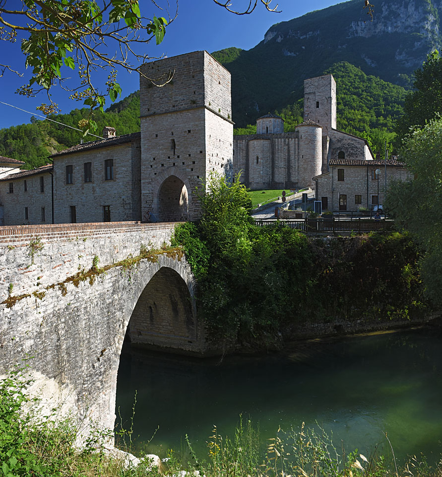 San Vittore with the old bridge over Sentino river.